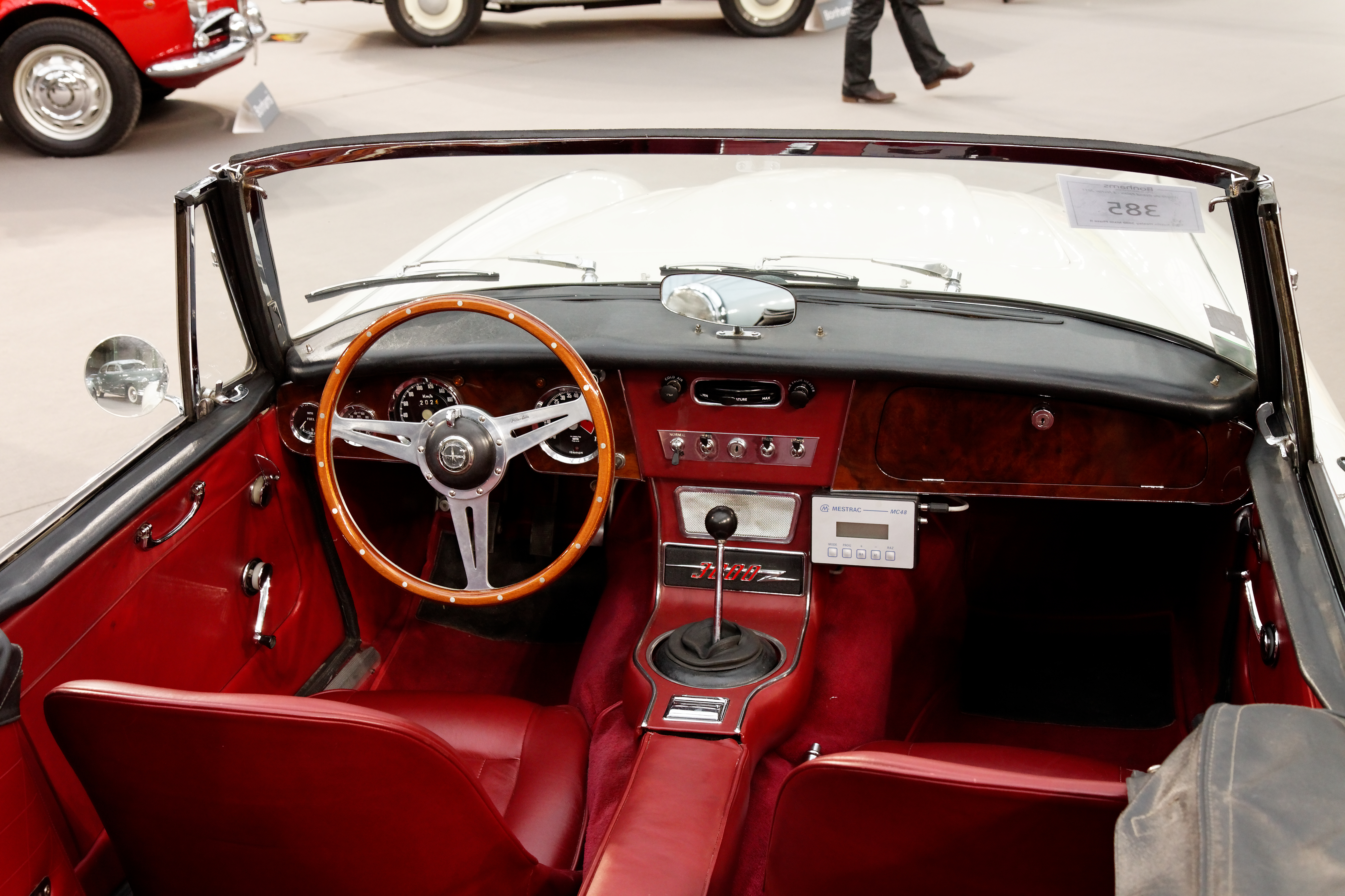 Austin-Healey 3000 Mk III